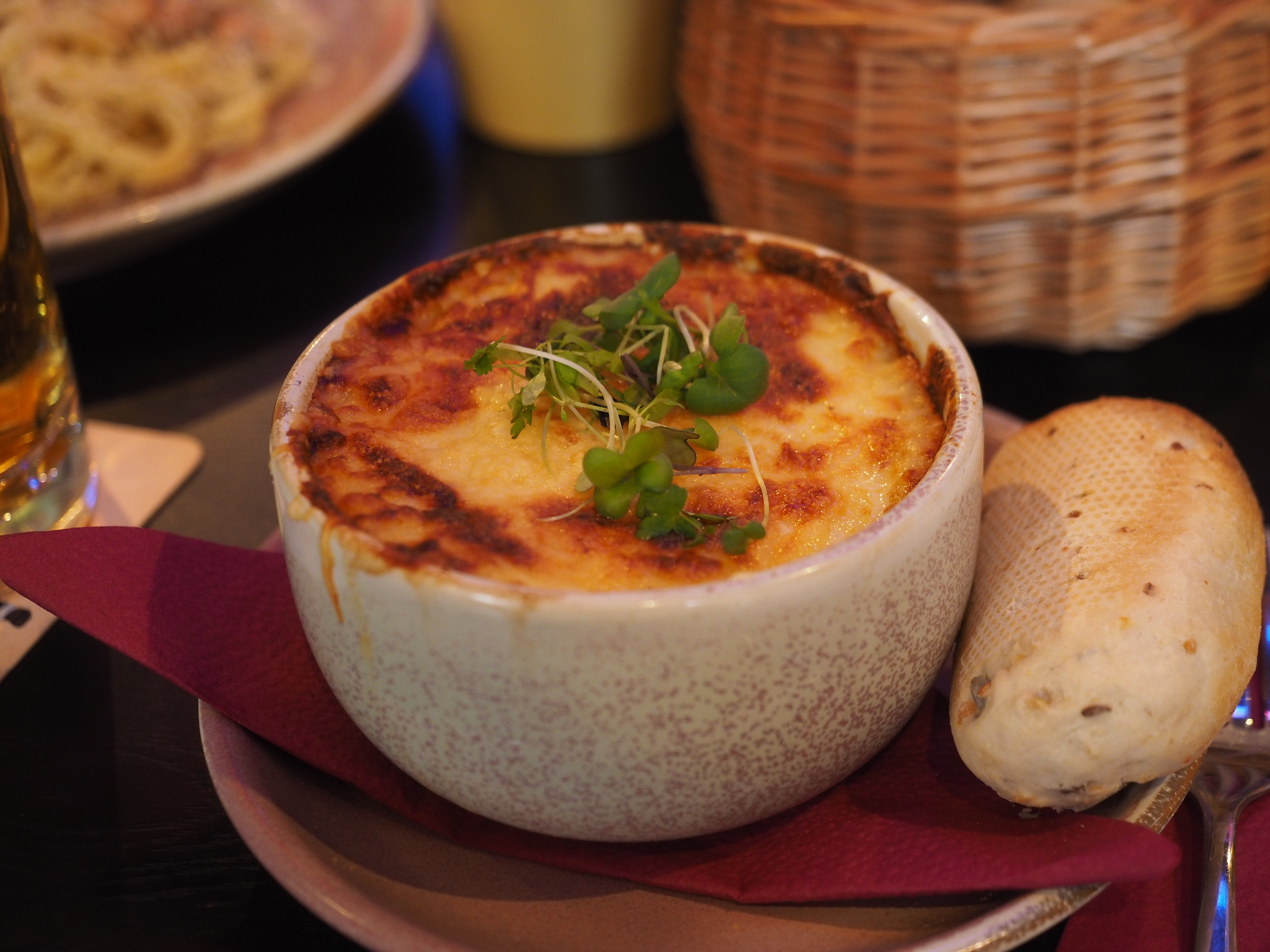 Shepherd's pie with a bread roll, served at restaurant Hell Hunt in Tallinn, Estonia.